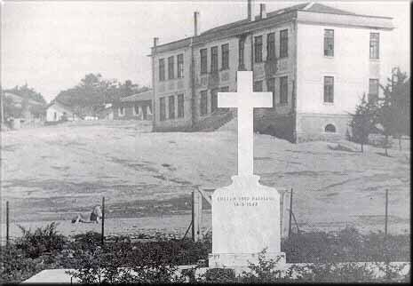 Mass grave of 112 inhabitants of Greek city of Yannitsa, Central Macedonia, murdered by Nazis and their collaborators in September 1943